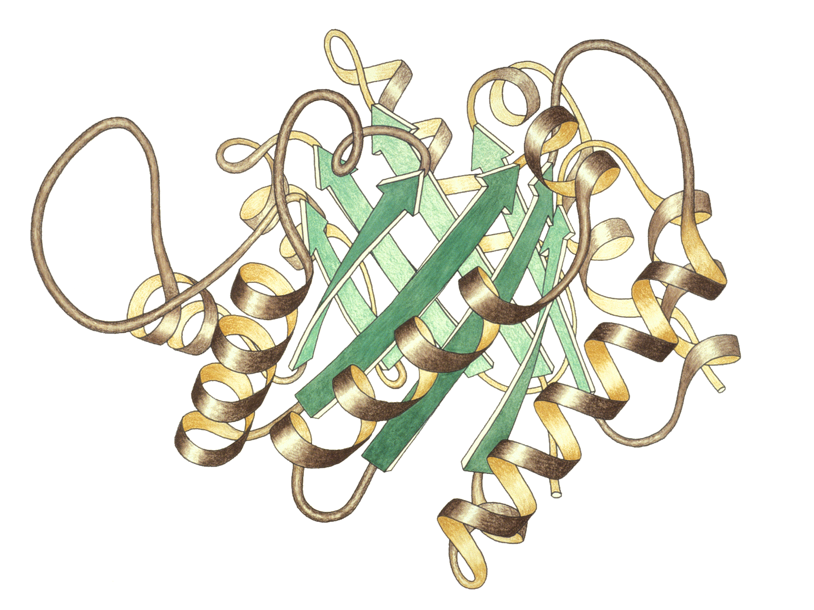 Ribbon schematic (hand drawn & colored) of the 3D structure of the protein triose phosphate isomerase. The barrel of 8 beta strands is shown by green arrows and the 8 alpha-helices as brown spirals.